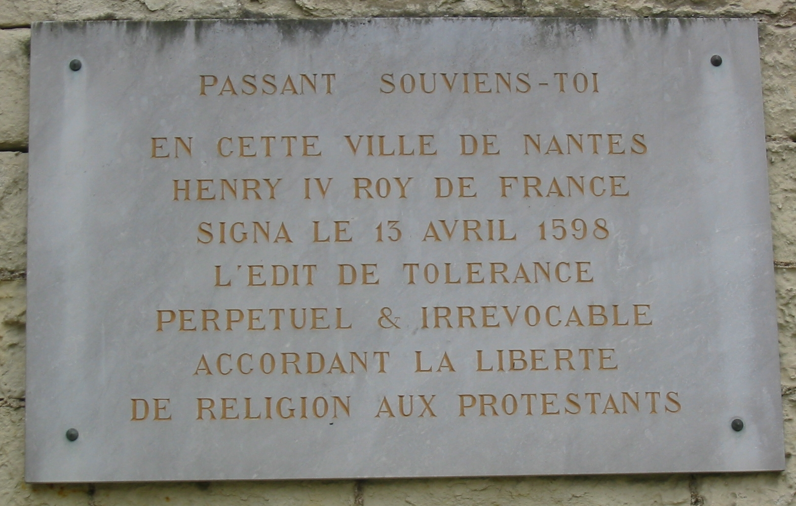 Edict of Nantes commemorating plaque, Ducal palace, Nantes. Edict was probably issued on 30 April